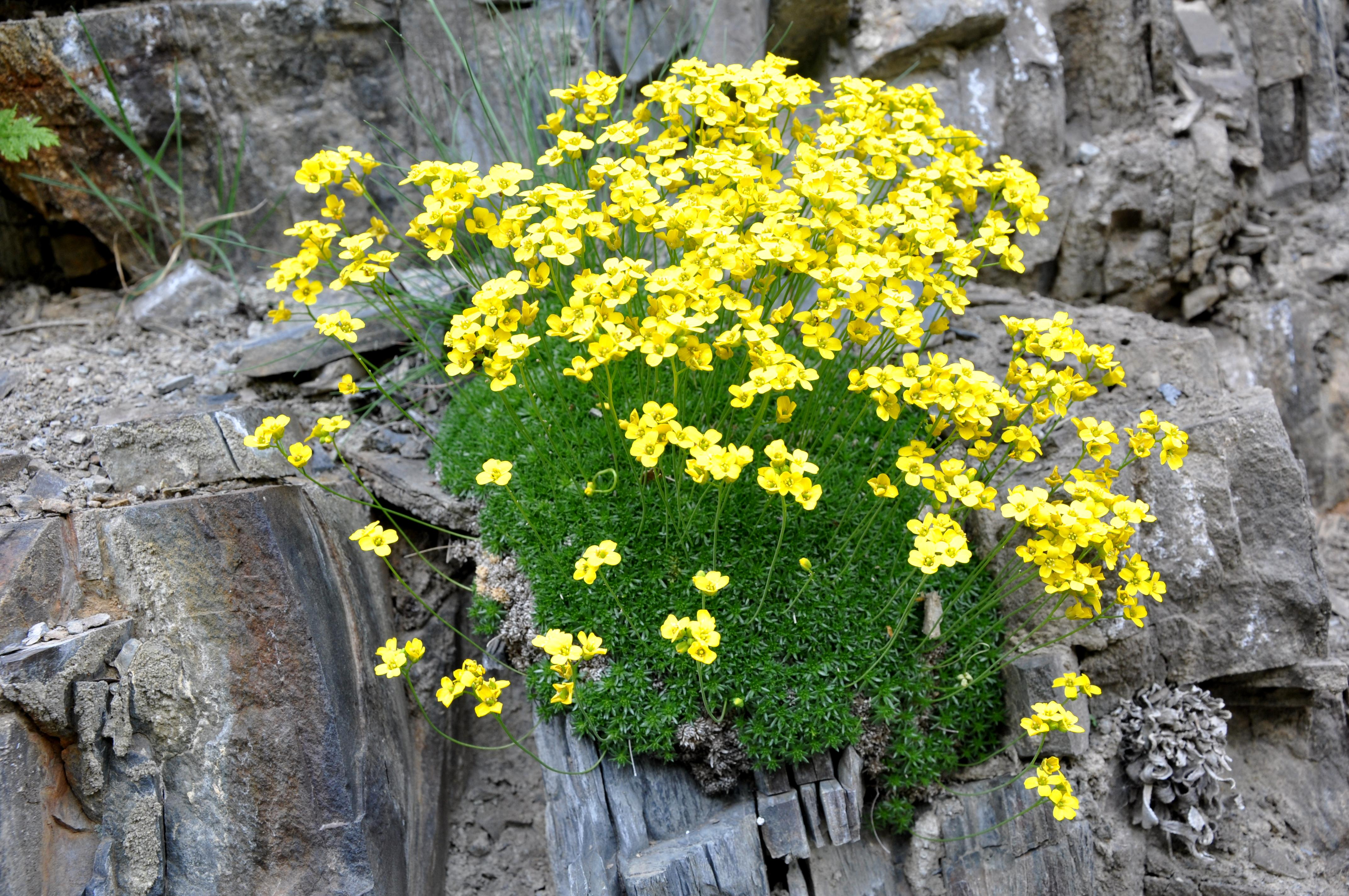 Taken in Barisakho